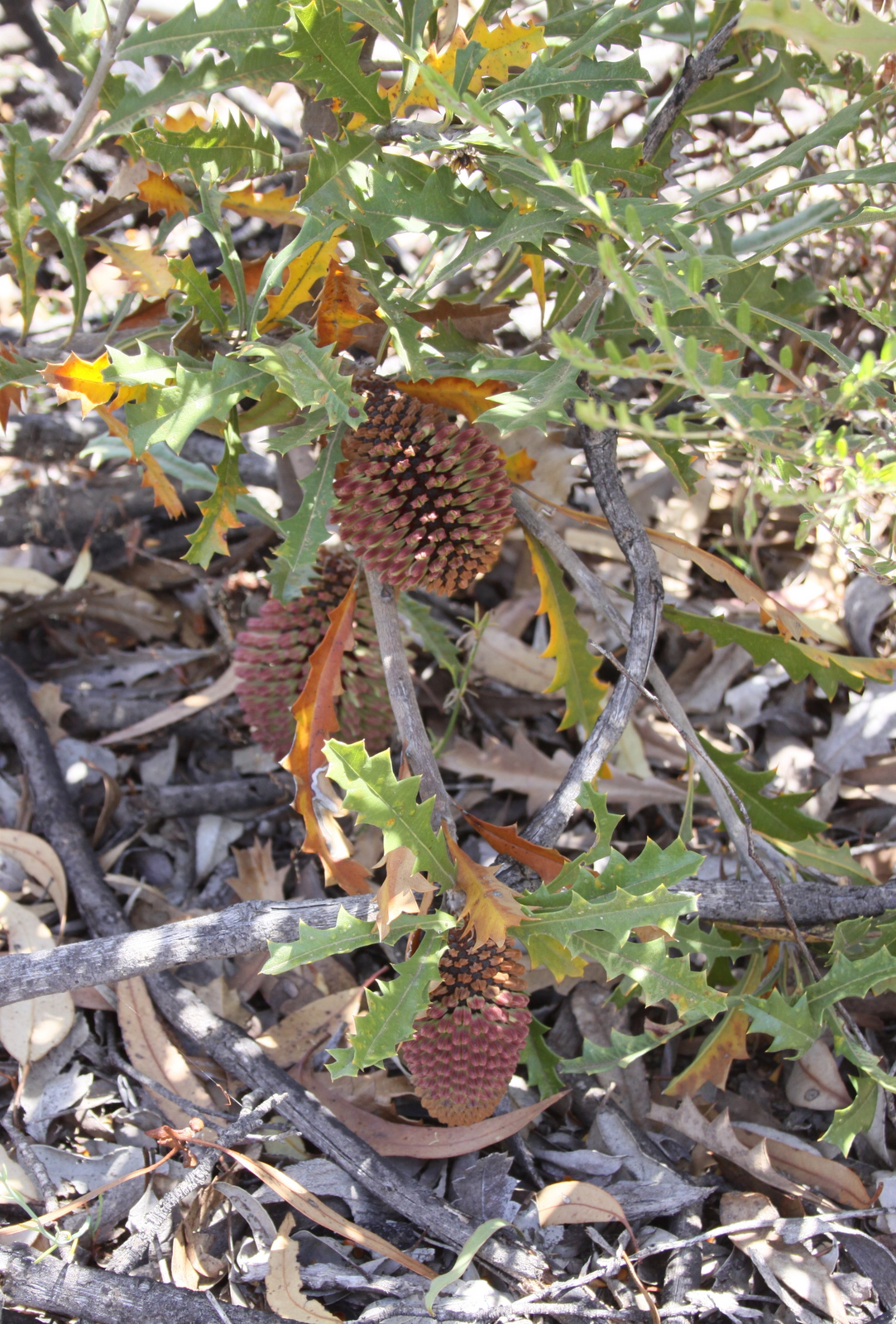 Banksia aculeata along Red Gum Pass Rd, Stirling Range National Park, WA